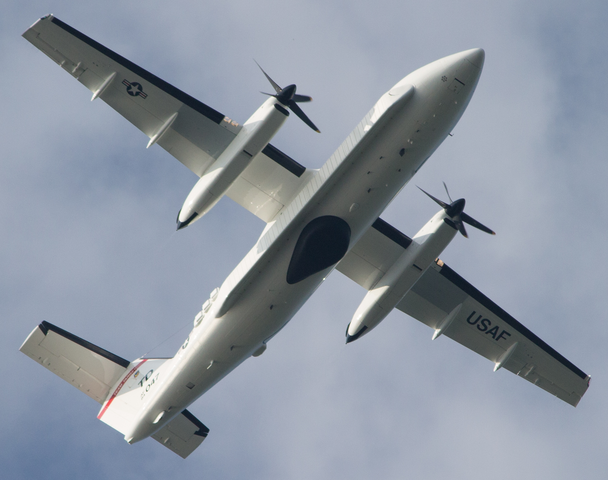 An E-9 Widget taking off from Tyndall AFB, Florida.